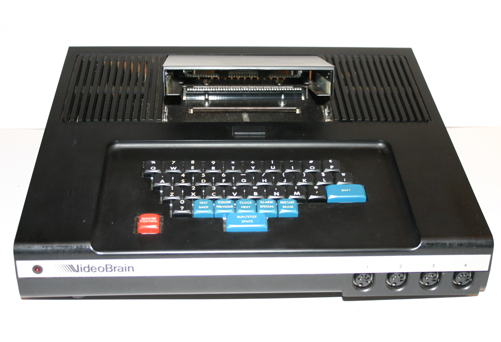 Angled front view of VideoBrain Computer with cartridge carrier (door on top of computer) open. No joysticks, cartridges, or packaging in the photo